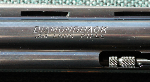 Photo © by Jeff Dean